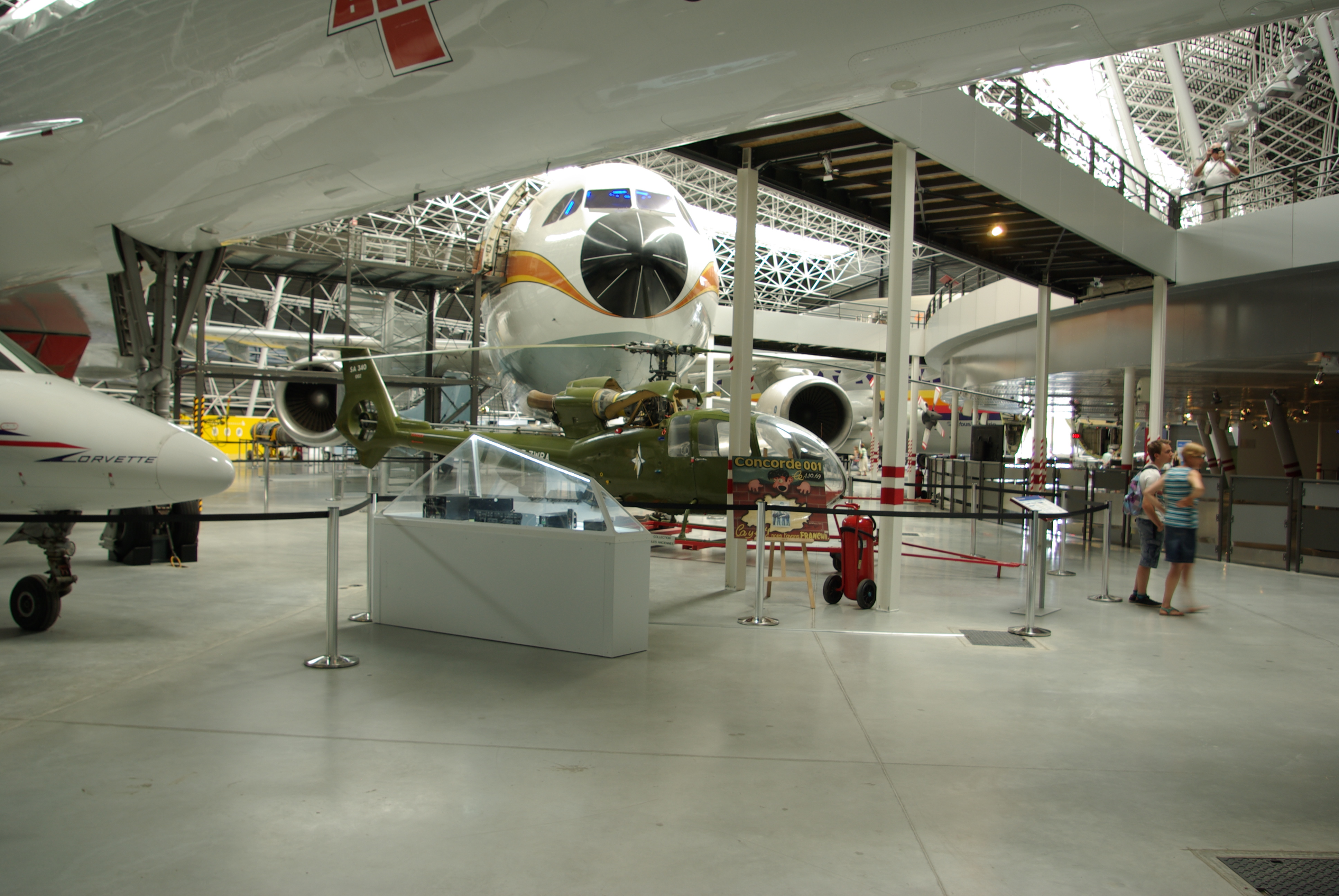 View of the main hall of Aeroscopia taken from the ground floor under Concorde.